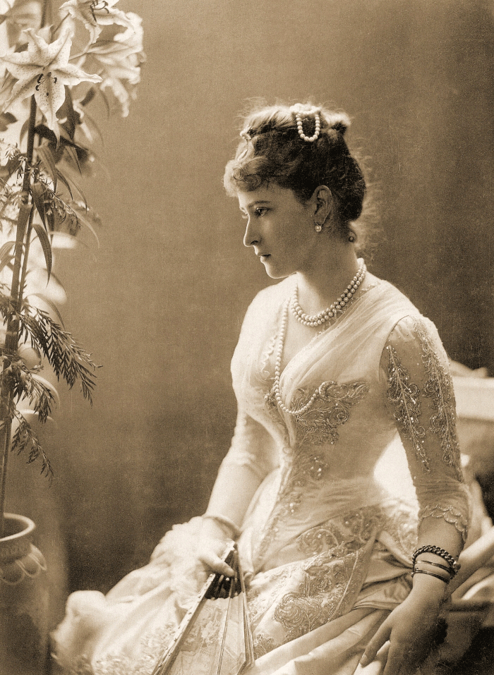 Elizaveta Fedorovna (1864-1918), wife of Sergey Alexandrovich, sister of Russian Last Empress Alexandra Fedorovna (wife of Nicolas II).